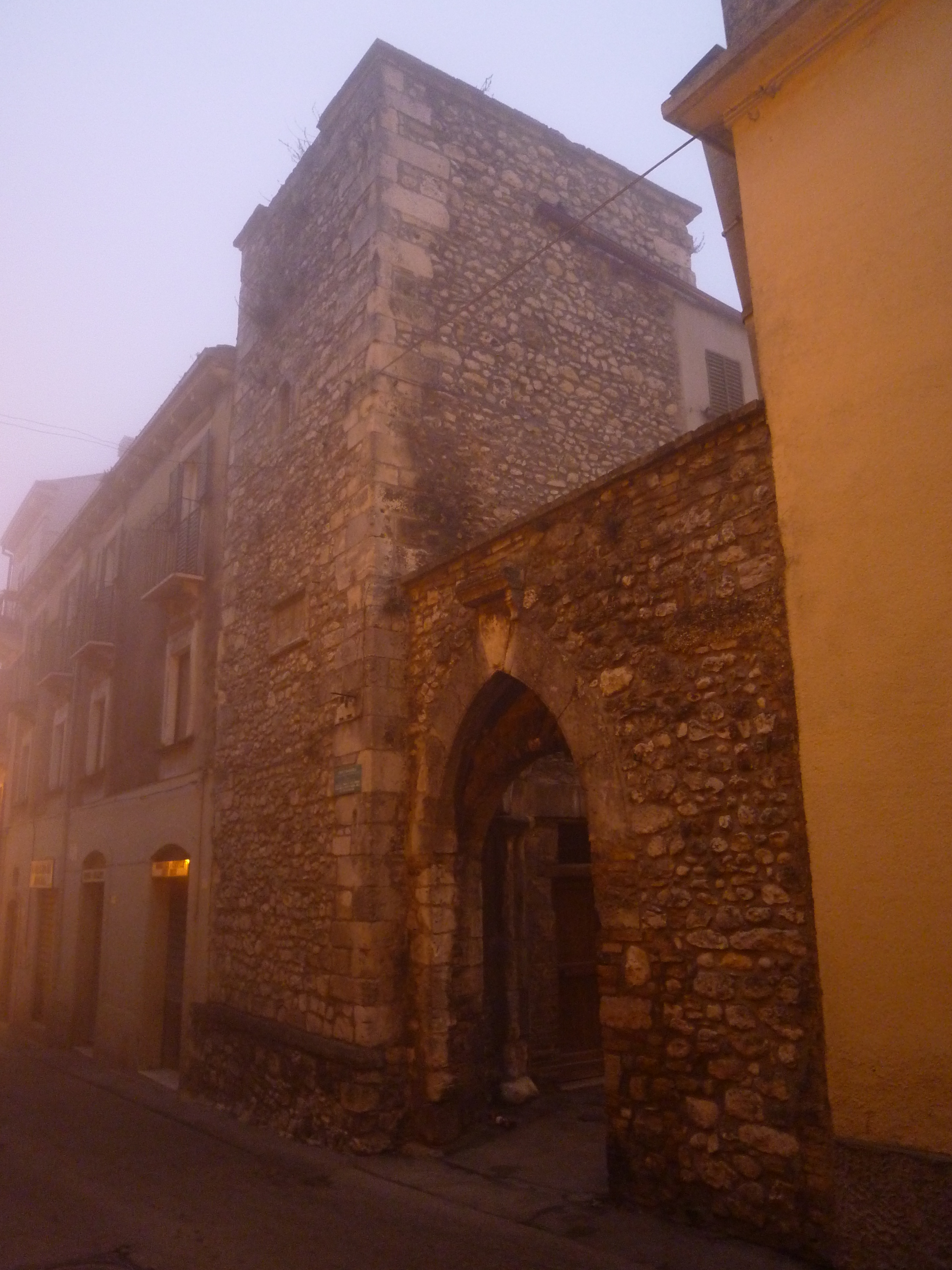 Porta and torre San Pietro, Guardiagrele, province of Chieti, Abruzzo